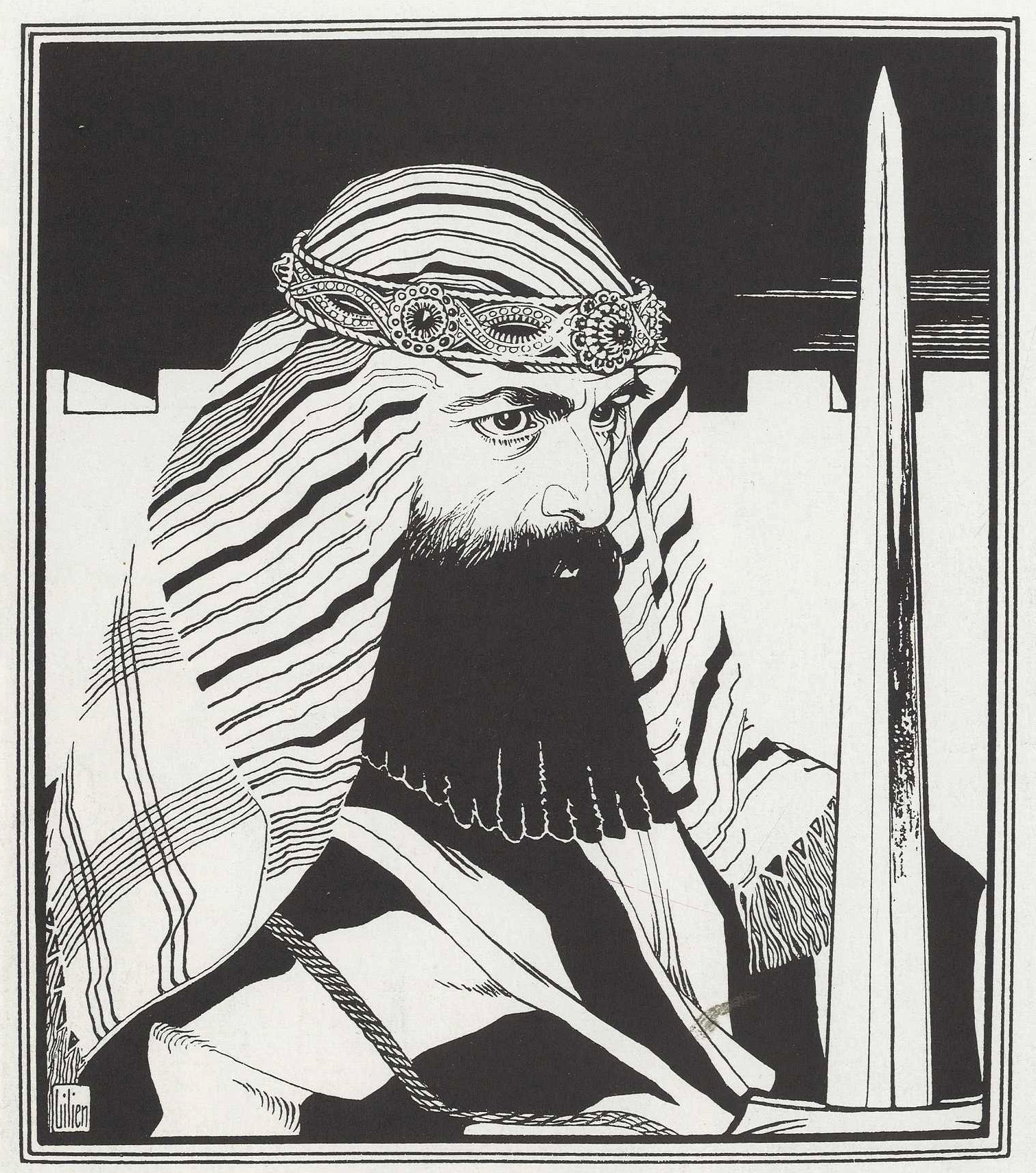 Joshua (1908) by Ephraim Moses Lilien. Note his similarity to Theodor Herzl - a theme that appears regularly in Lilien's designs.[1]